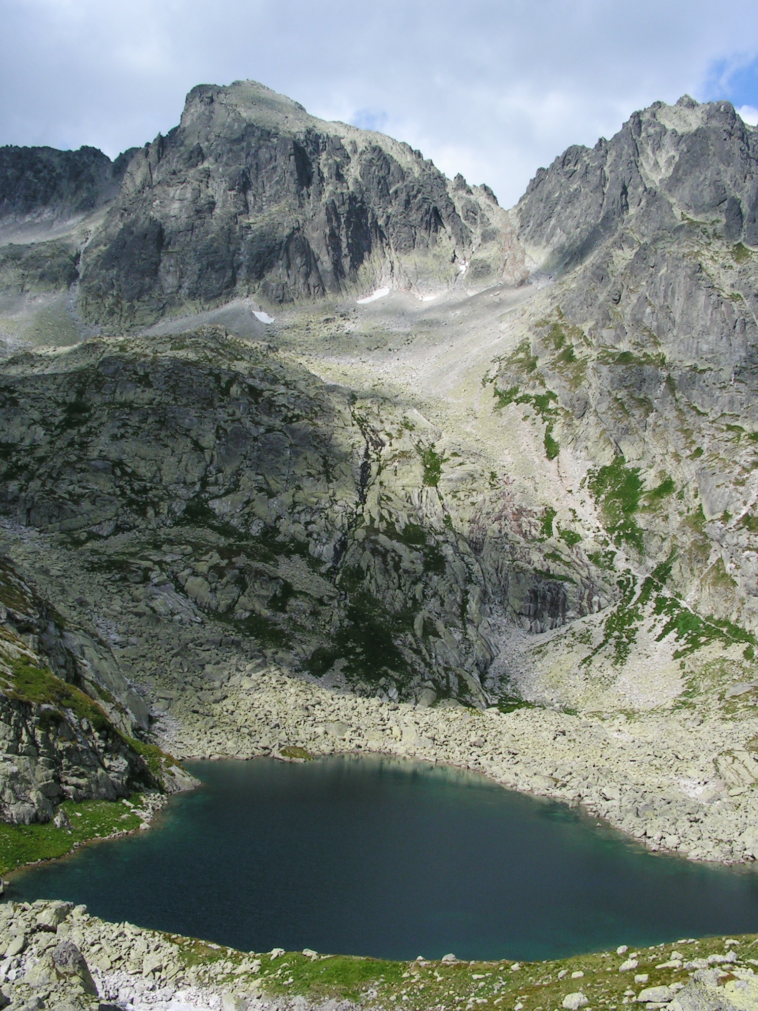 Veľké Spišské pleso, above it Baranie rohy, Baranie sedlo and Spišský štít